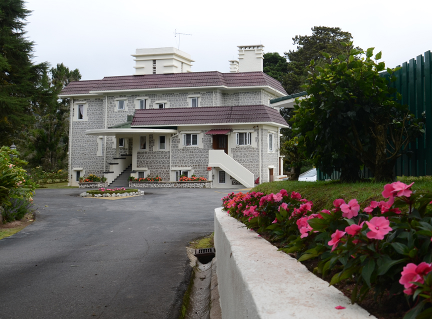 Cluny lodge is located at 39000, Tanah Rata, Cameron Highlands, Pahang, West Malaysia. It overlooks the township of Brinchang. Photo taken by User:Roysouza.